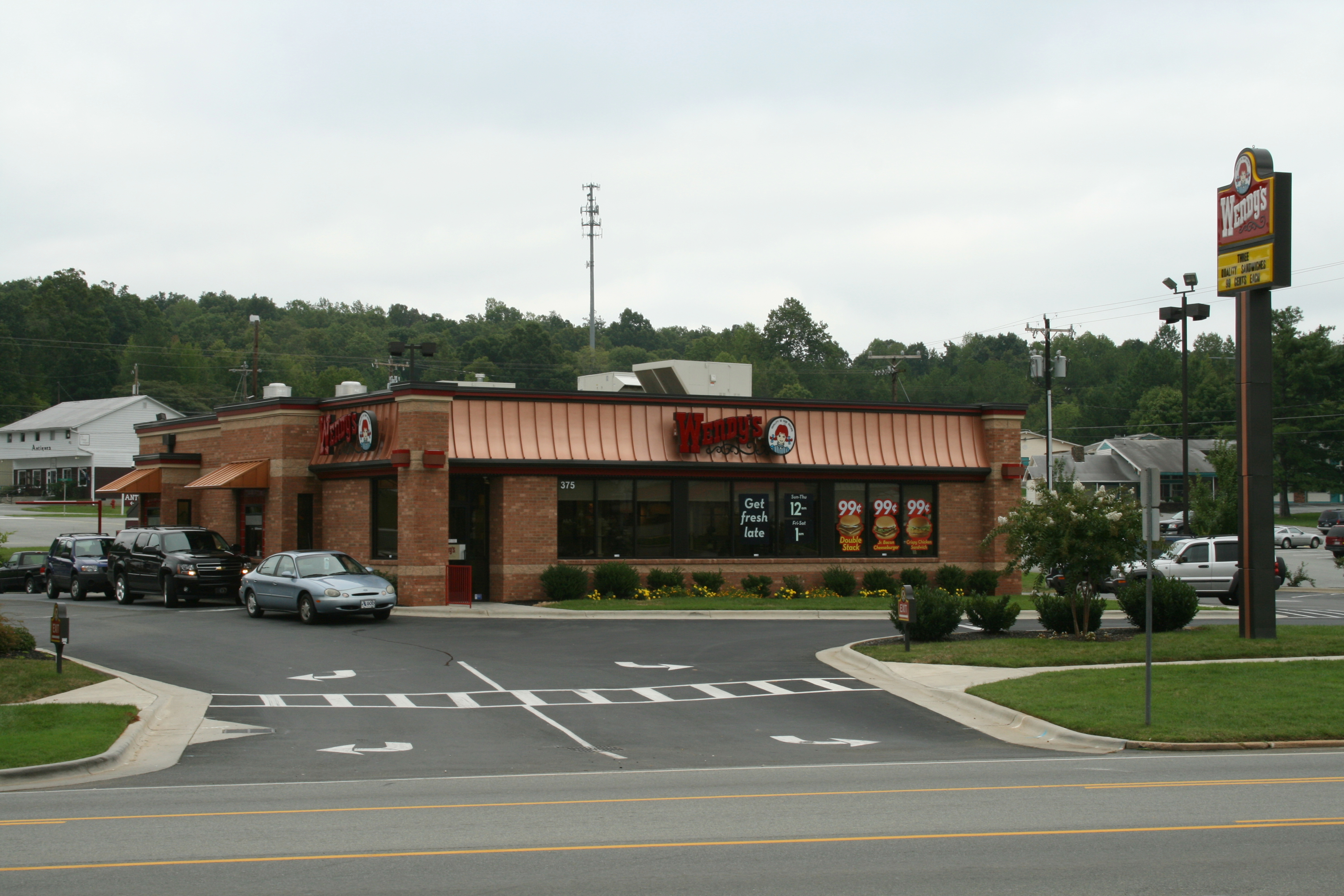 Wendy's restaurant at 375 South Churton Street in Hillsborough, North Carolina.